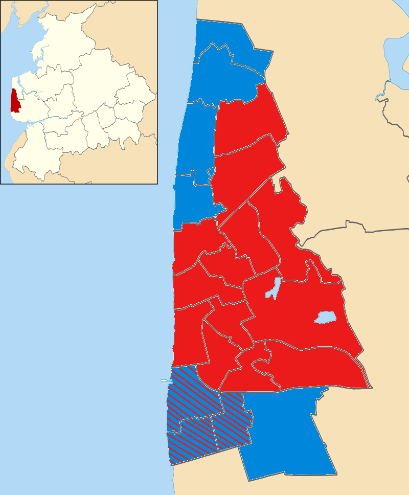 Map of Blackpool, UK showing the results of the 2015 local election. Solid blue represents two Conservative councillors Solid red represents two Labour councillors Striped blue/red represents one Conservative and one Labour councillor